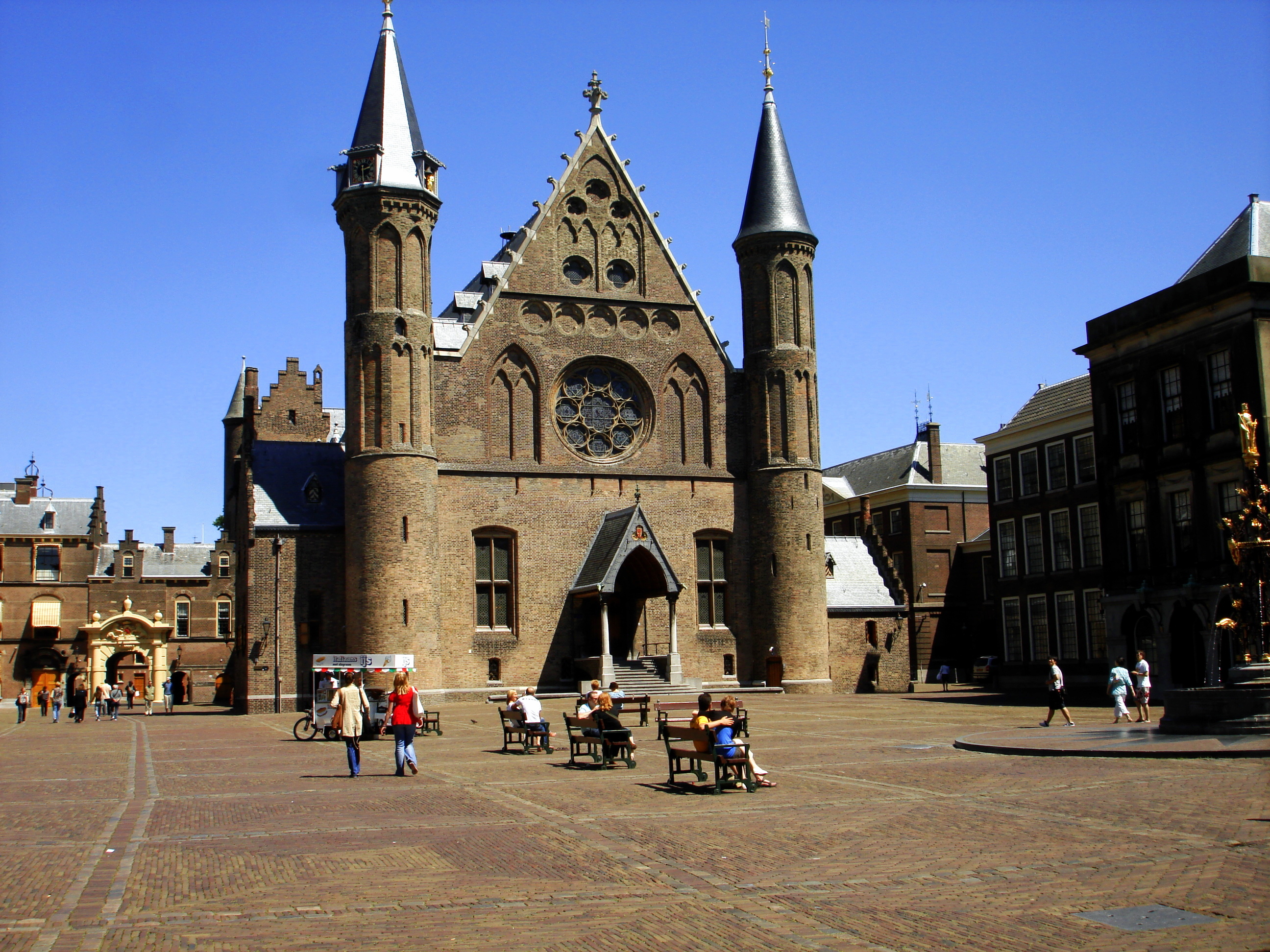 House of Parliament, Netherlands